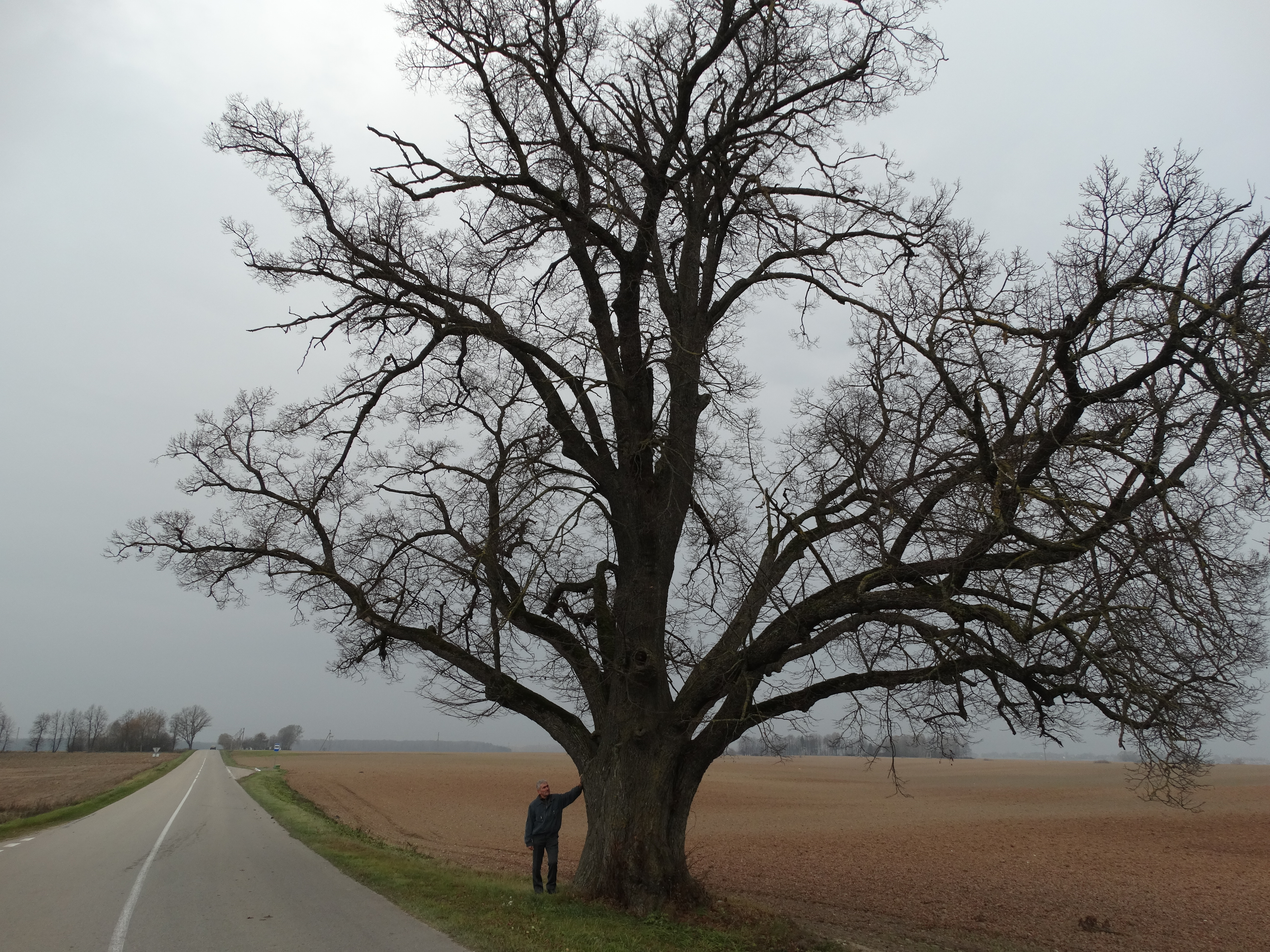 Vytartai lime tree, Pasvalys district, Lithuania